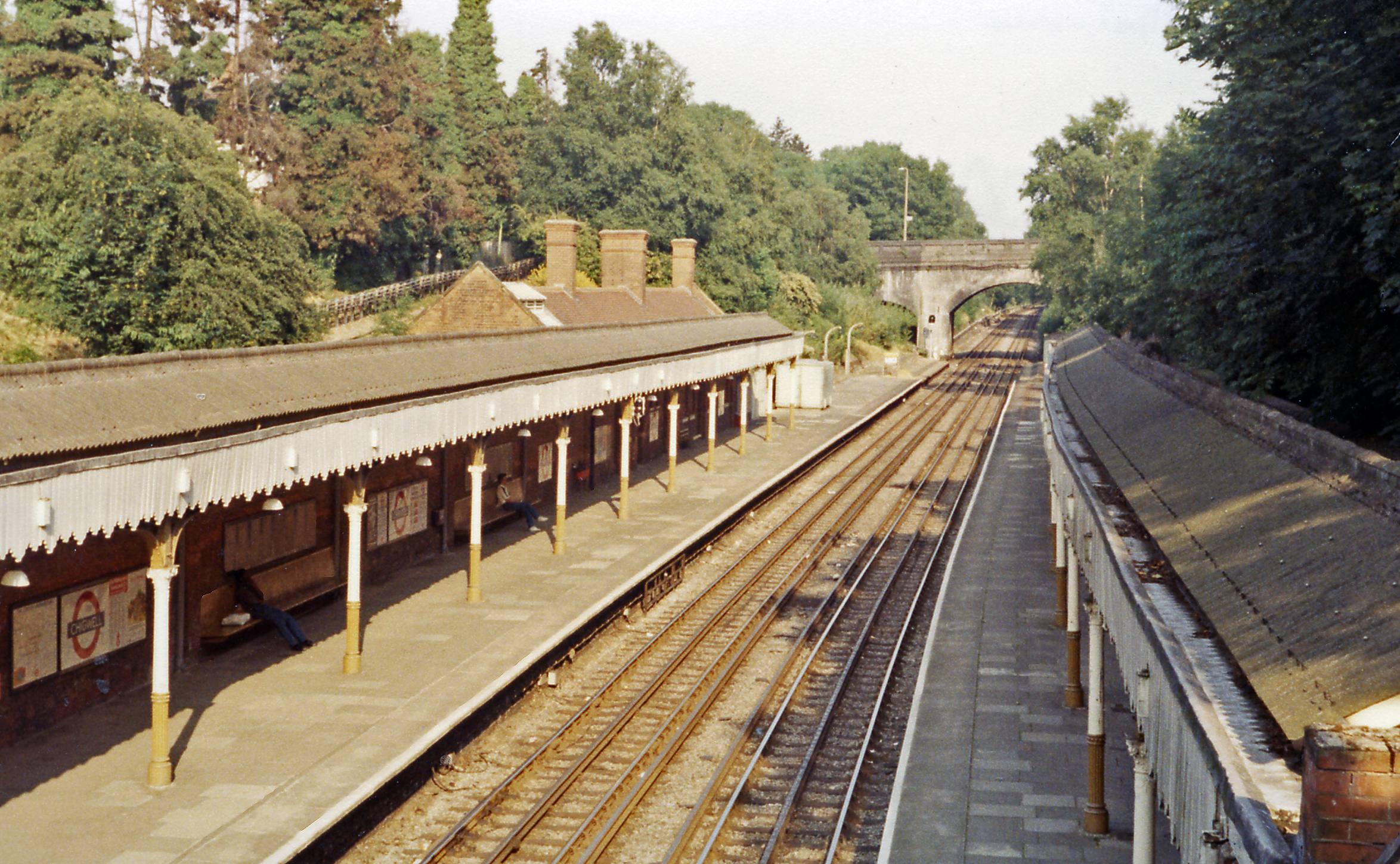 Chigwell station, 1984. View eastward, towards Fairlop, Hainault and Leytonstone (formerly to Ilford) on the Woodford - Hainault section of the London Underground Central Line, formerly the ex-GER Woodford - Fairlop - Ilford loop line. It was taken over from BR(ER) (ex-LNER, ex-GER) by the LPTB from 21/11/48: the station remains typical GER and the 'Tube' trains, from miles away at West Ruislip or Ealing Broadway, still seem out of place